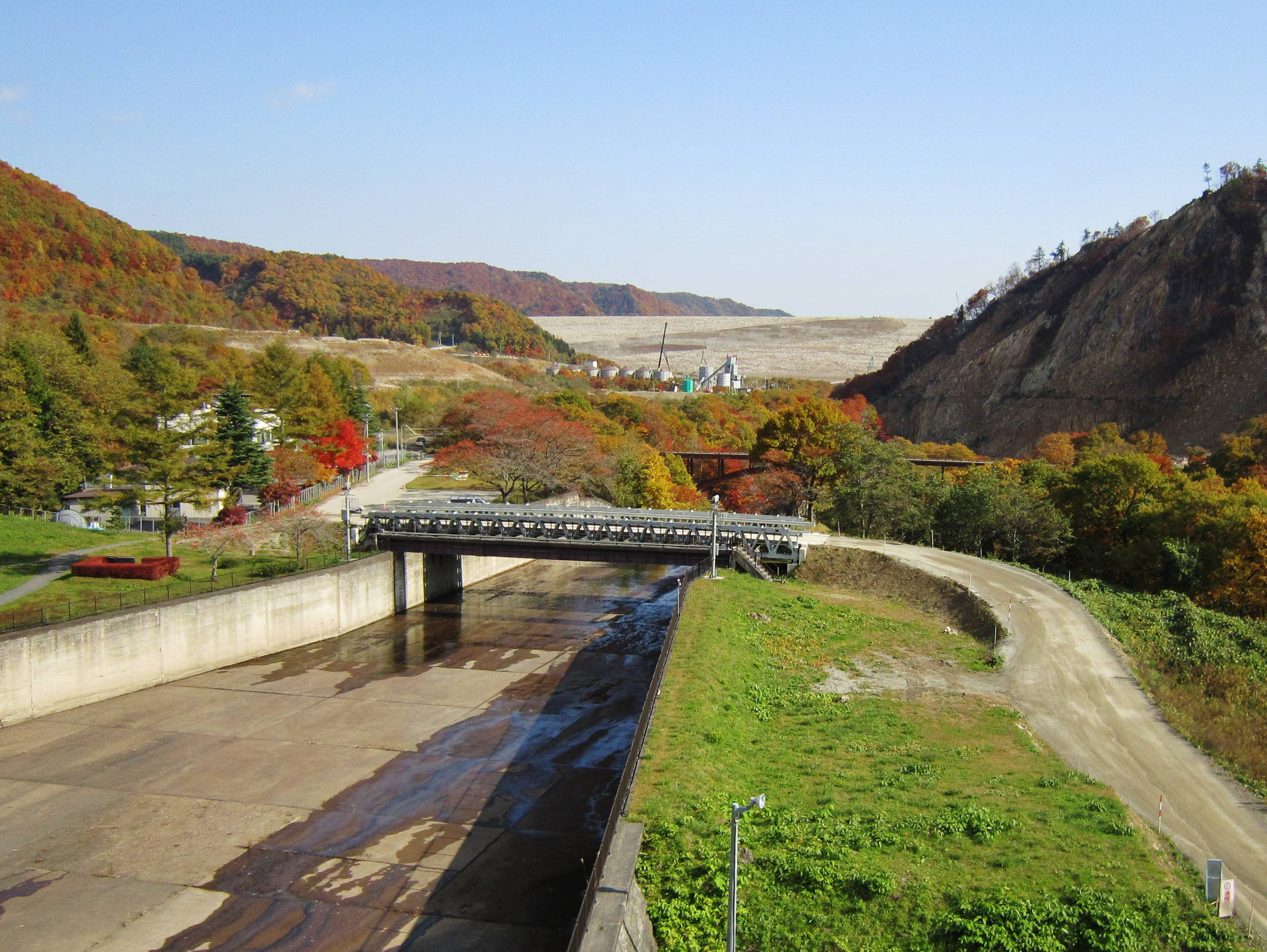 Isawa Dam (view from Ishibuchi Dam).